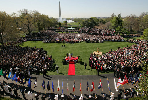 President George W. Bush and Pope Benedict XVI, seen from Truman Balcony of the White House, stand together on the reviewing stand during the welcoming ceremony for the Pope on the South Lawn of the White House Wednesday, April 16, 2008.